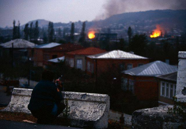 90s senaki